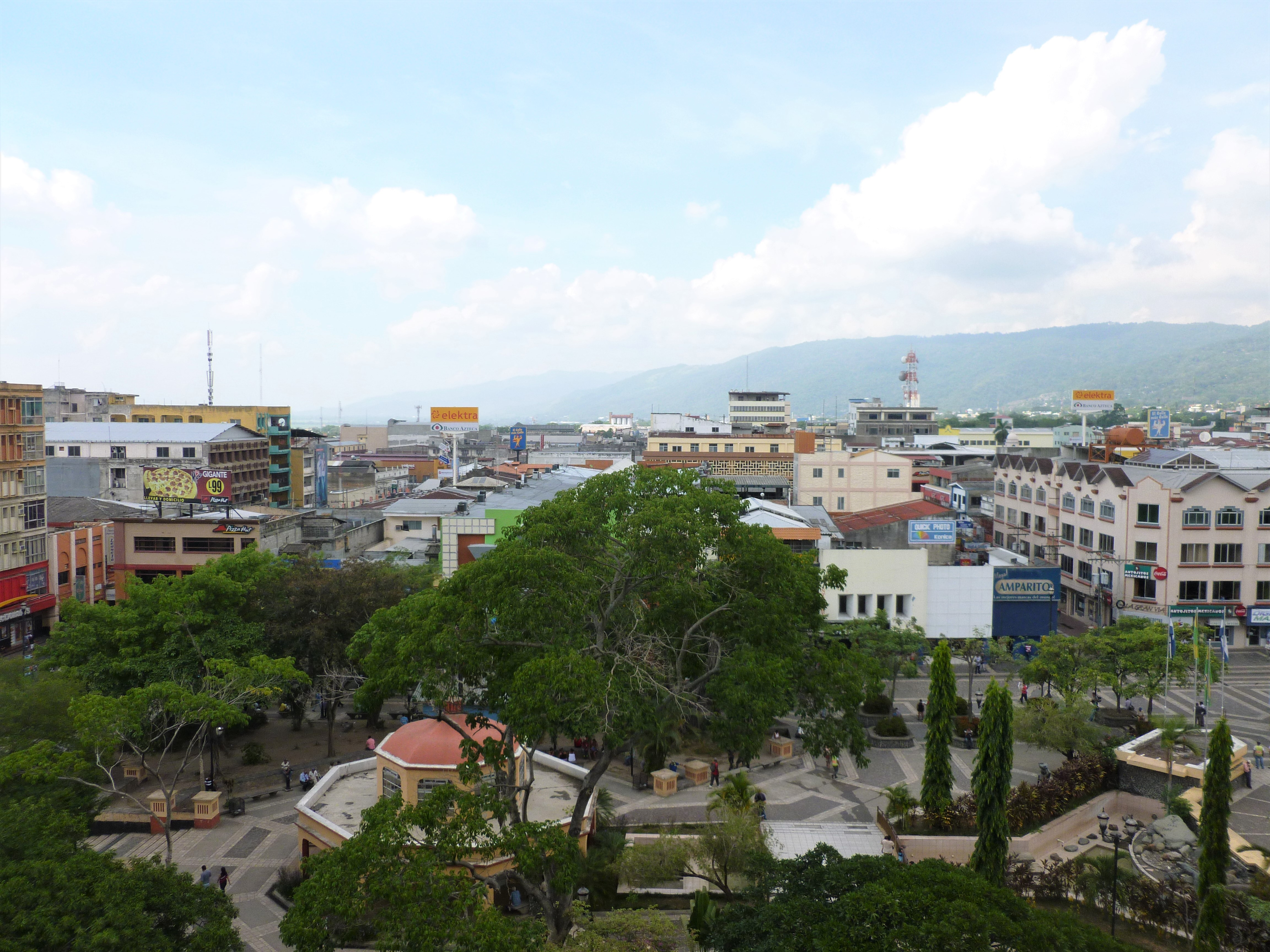 A view of San Pedro Sula, Honduras taken from Gran Hotel Sula.